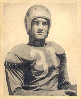 American football player Ralph Heywood on a 1948 Bowman card.